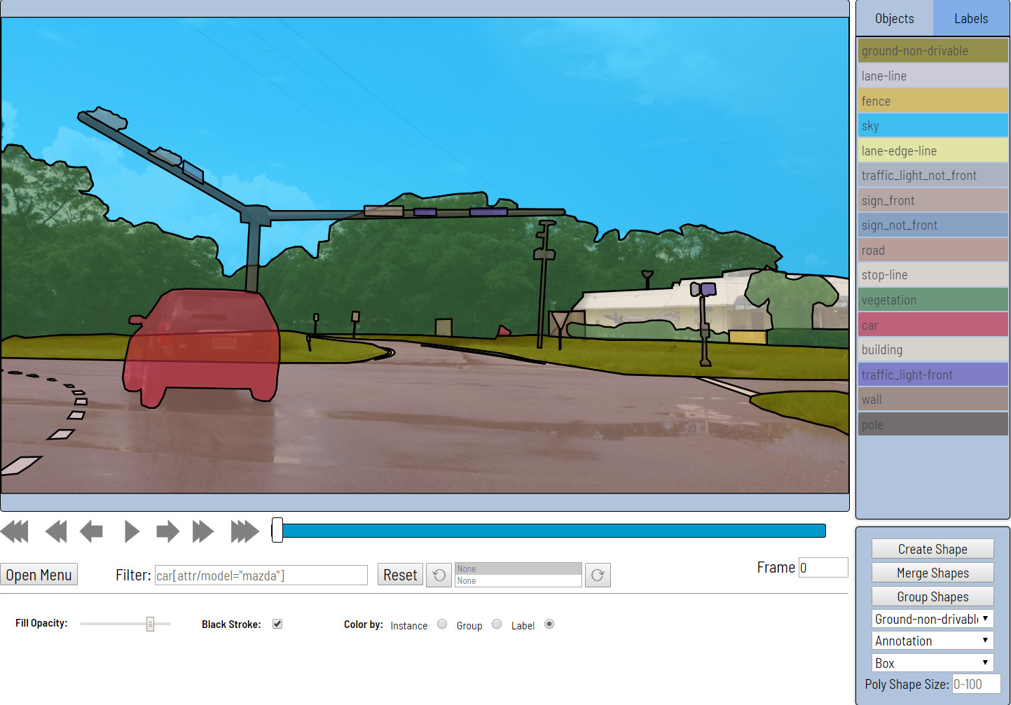 Screenshot of Computer Vision Annotation Tool (CVAT) 0.2.0